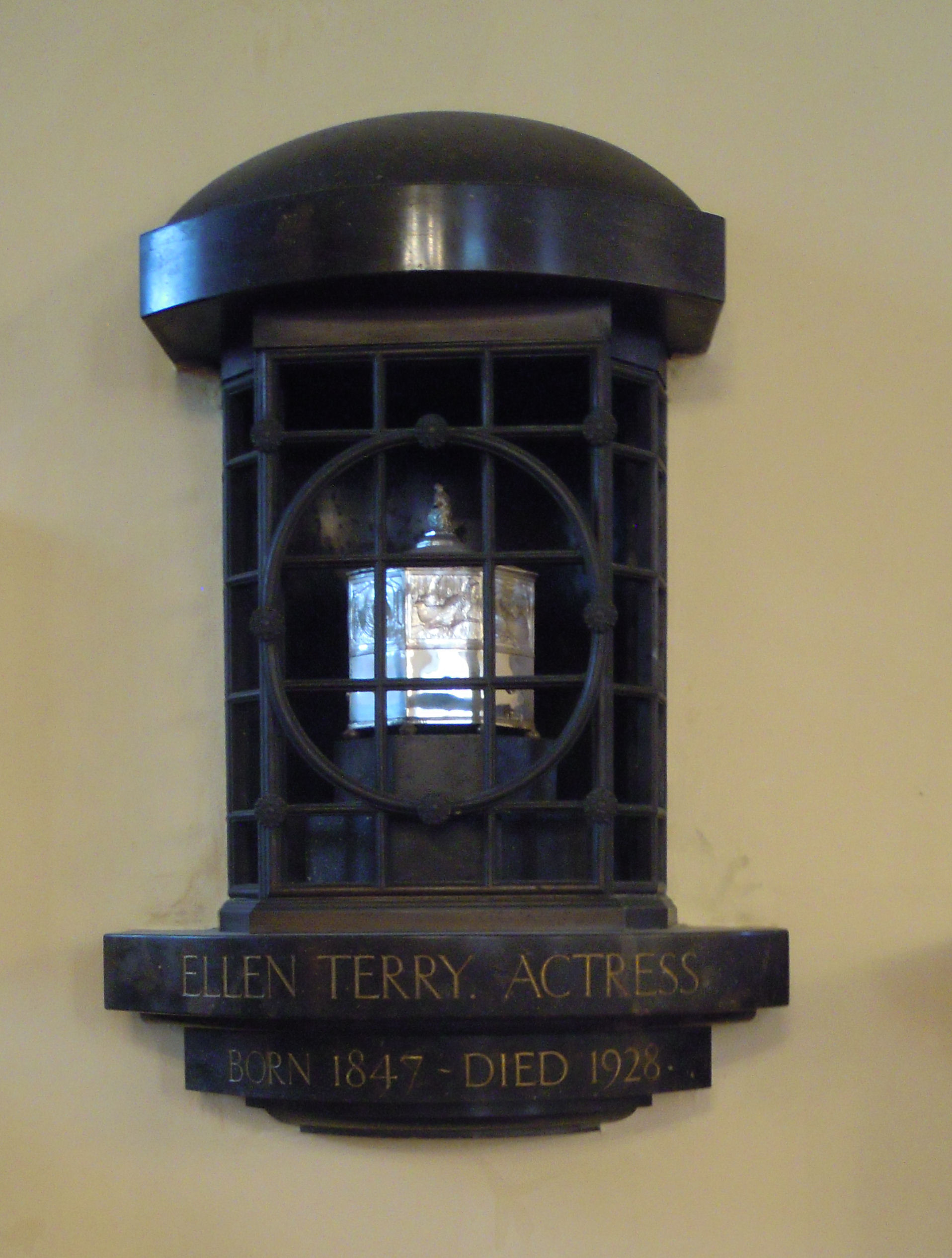 The ashes of the actress Ellen Terry in St Paul's church in Covent Garden